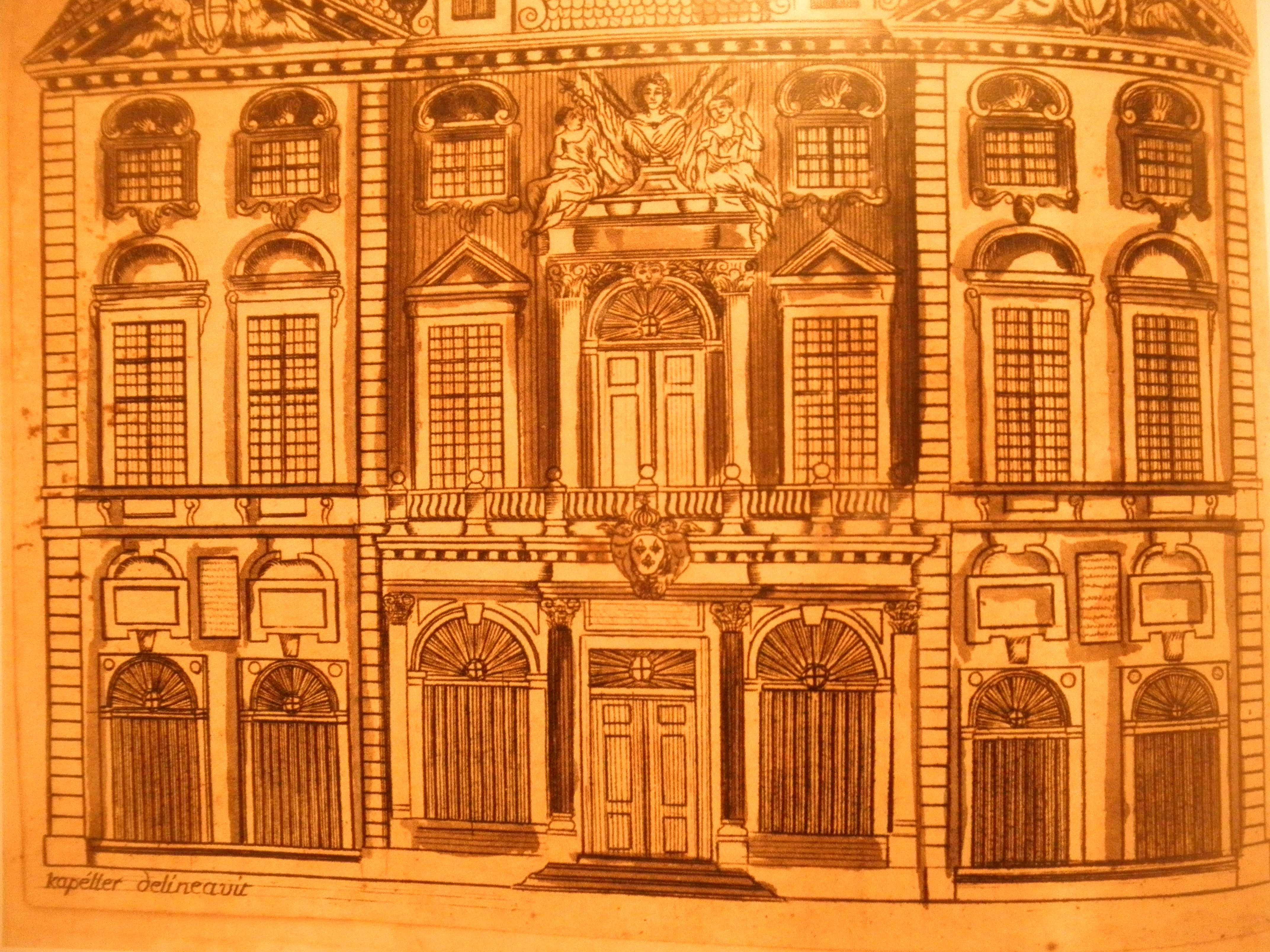 Almanach Grosson